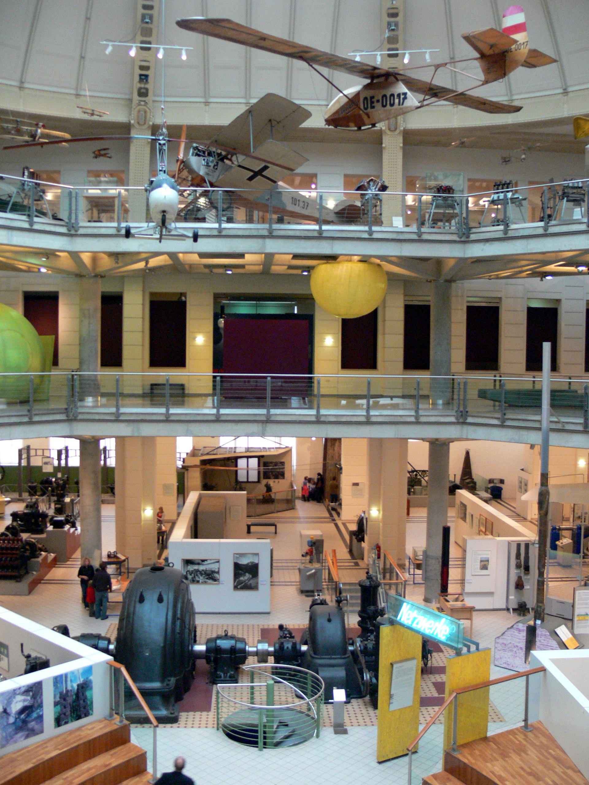 Technical Museum Vienna. Central hall. Gumpert G2 primary glider, Aviatik D.I